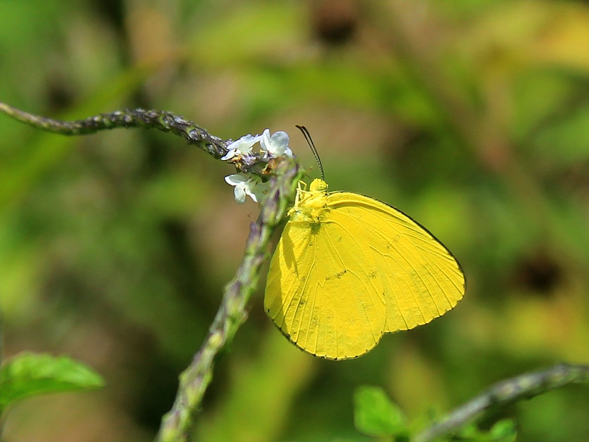 Gandaca harina at Bitung, North Sulawesi